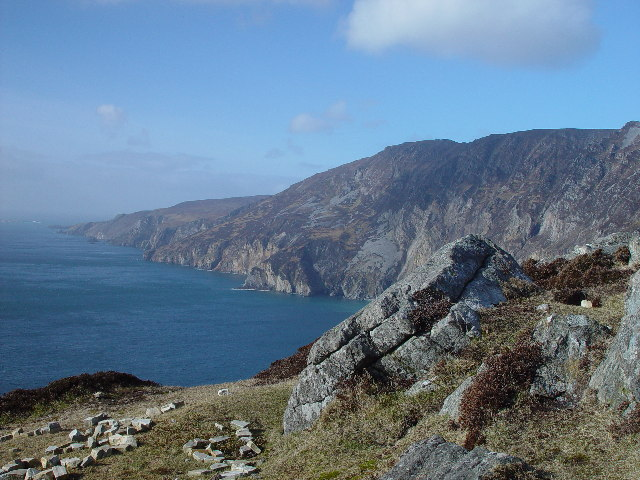 Slieve League, Co. Donegal.